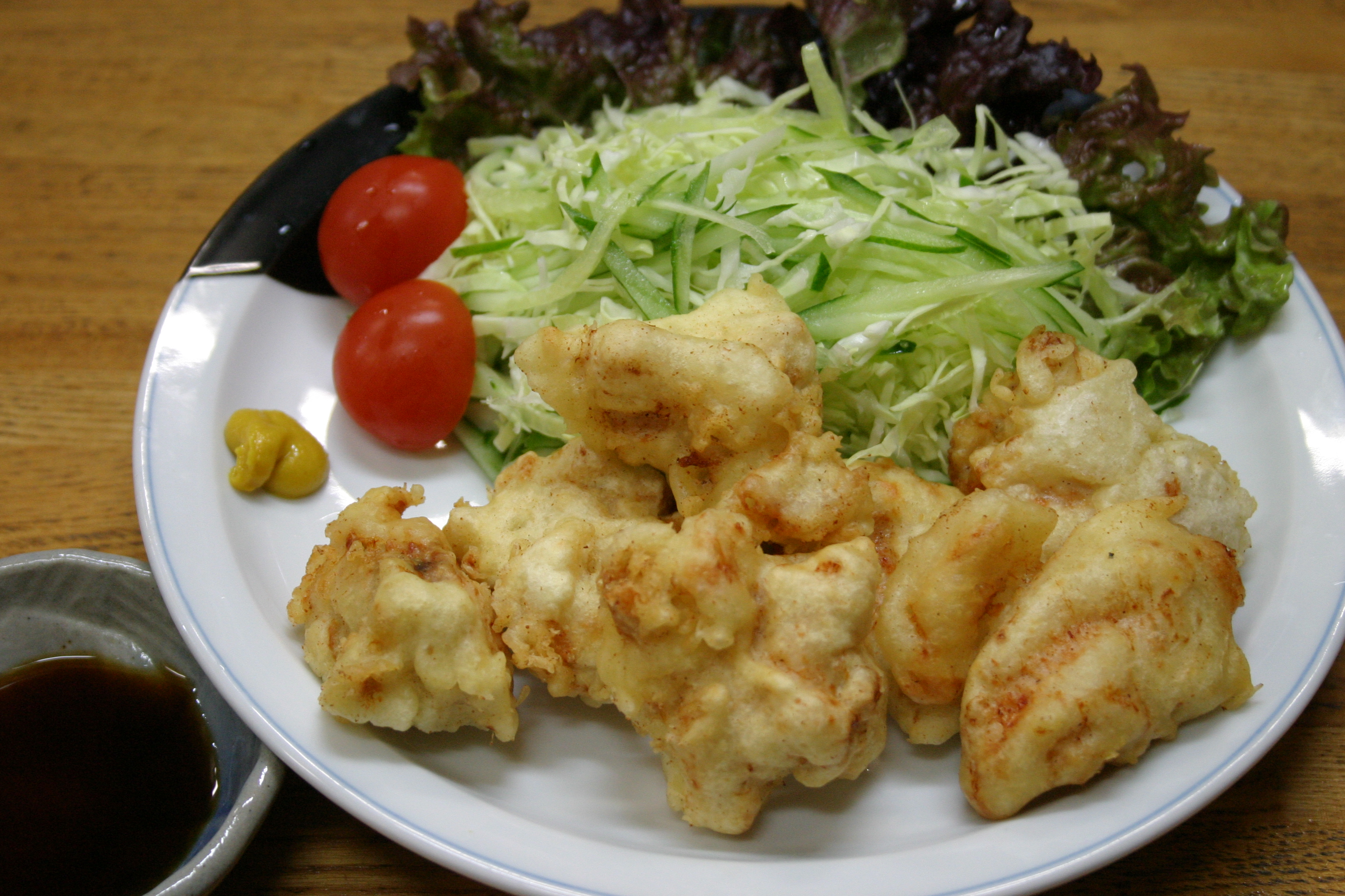 Toriten (traditional chicken tempura in Oita, Japan)